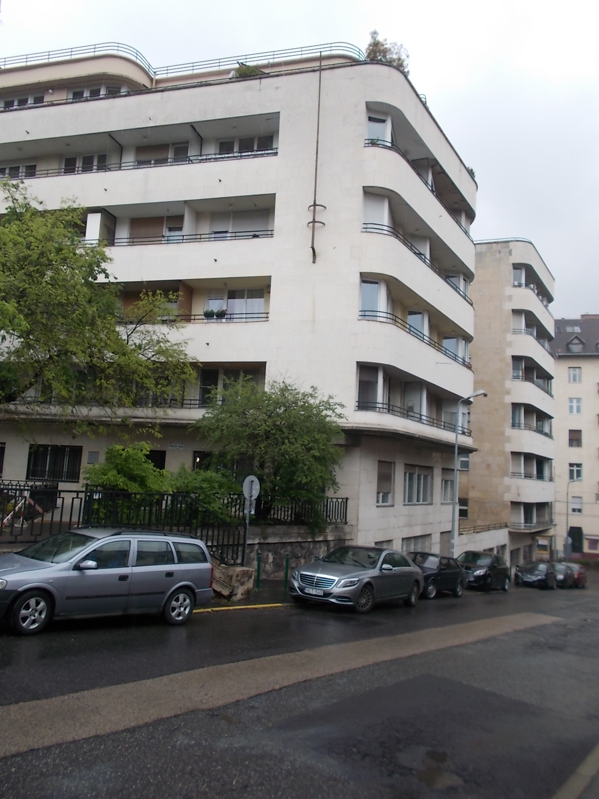 Built to luxury apartman house (rentable flats) ordered by Manfréd Weiss Pension Fund. Architects: Ferenc Domány and Béla Hofstätter. Built in 1938, Bauhaus style. Cylinder shaped lift, special shaped staircase, great views from flats, the drying room is a industrial heritage. - 15-17 Margit körút. Rómer Flóris utca and Mecset utca, Országút neighborhood, 2nd district of Budapest.